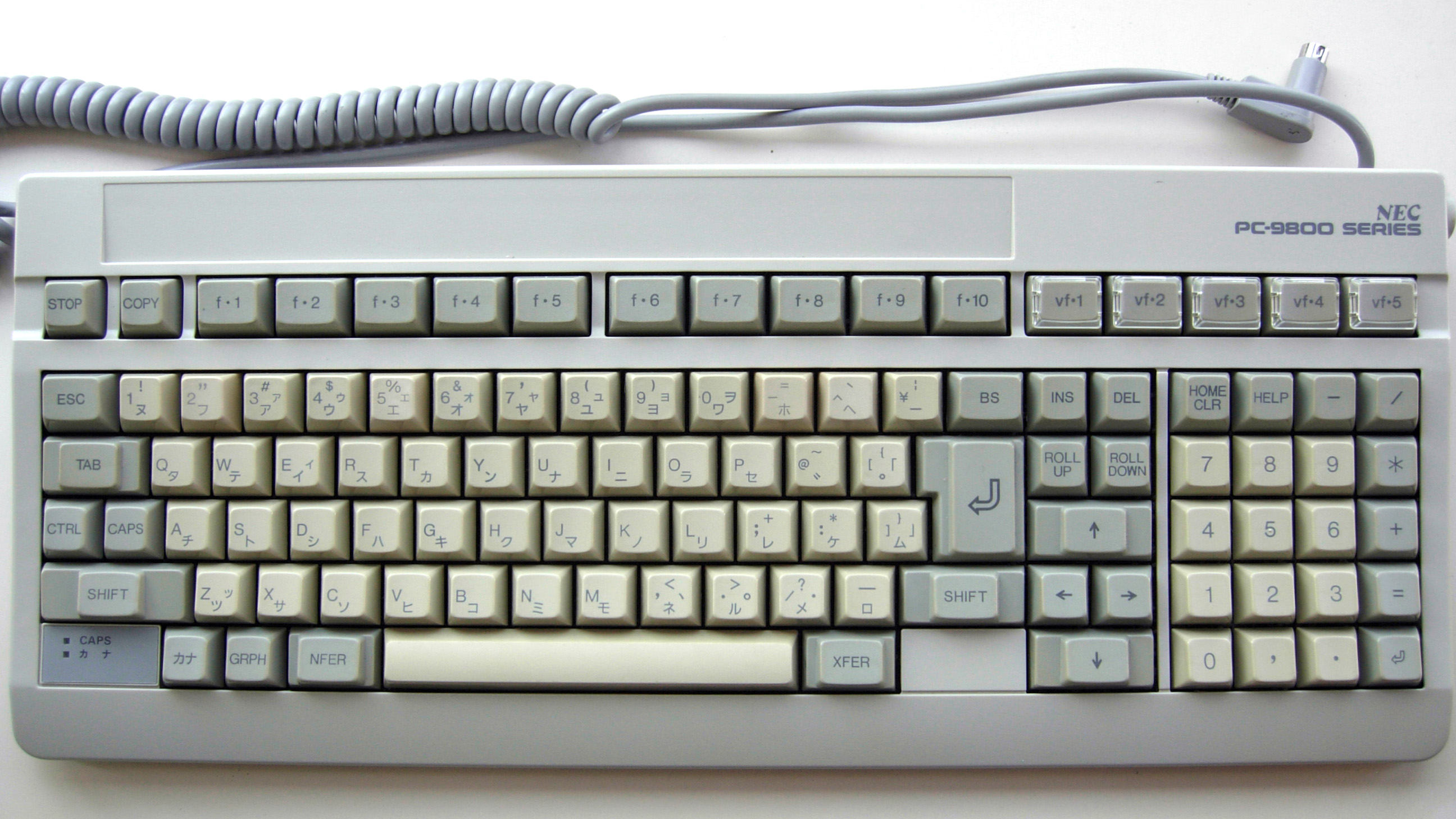 Japanese keyboard of NEC PC-9800 series computers.